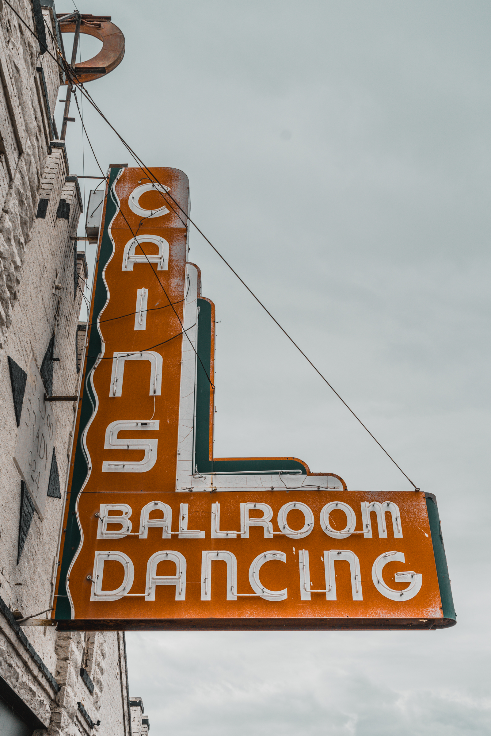 Historic neon sign outside Cain's Ballroom in Tulsa, Oklahoma.